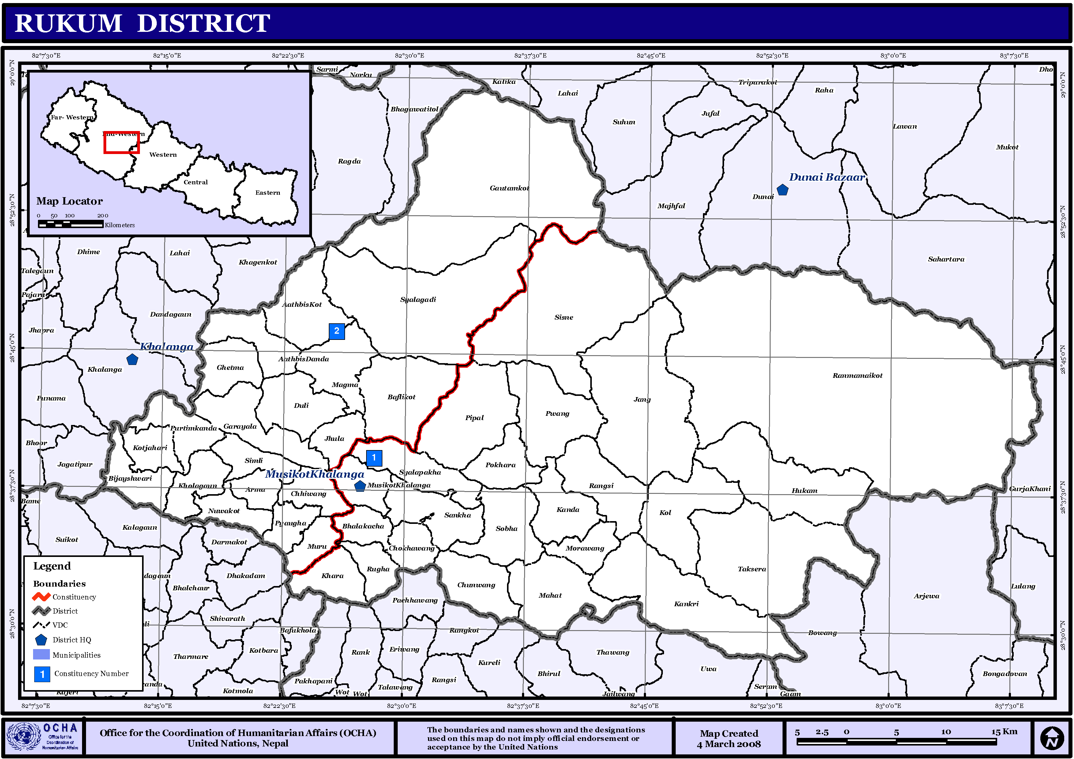 Map displaying Village Development Committees in Rukum District, Nepal